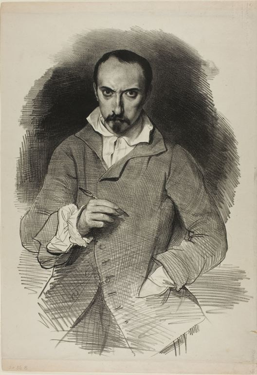 Self-Portrait, Lithograph on off-white China paper, laid down on cream wove paper